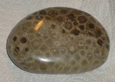 Photo of a Petoisky Stone, Hexagonaria percarinata self-made